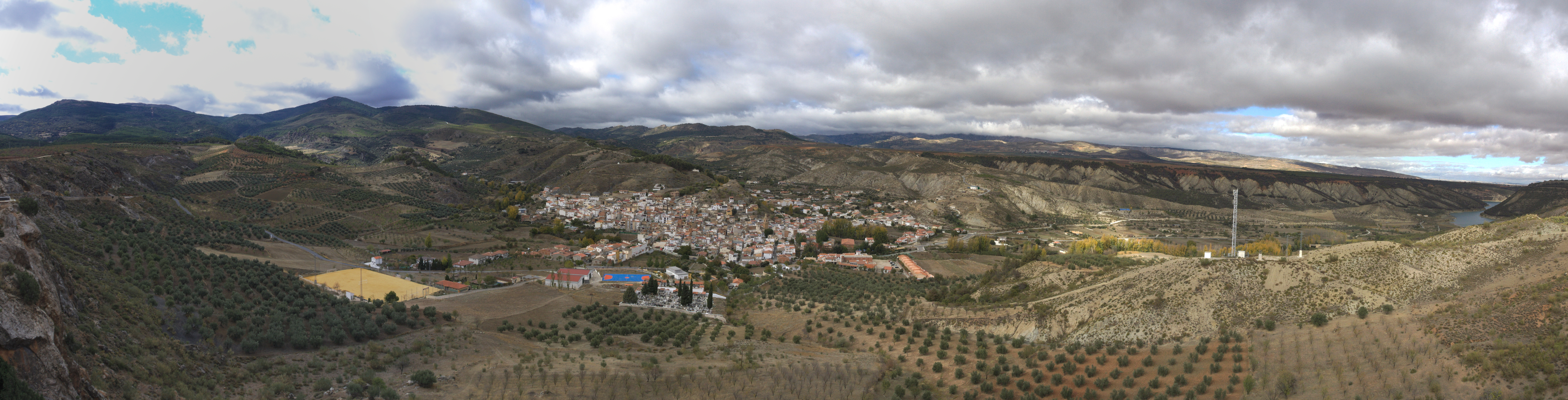 View of La Peza, in the province of Granada, Spain